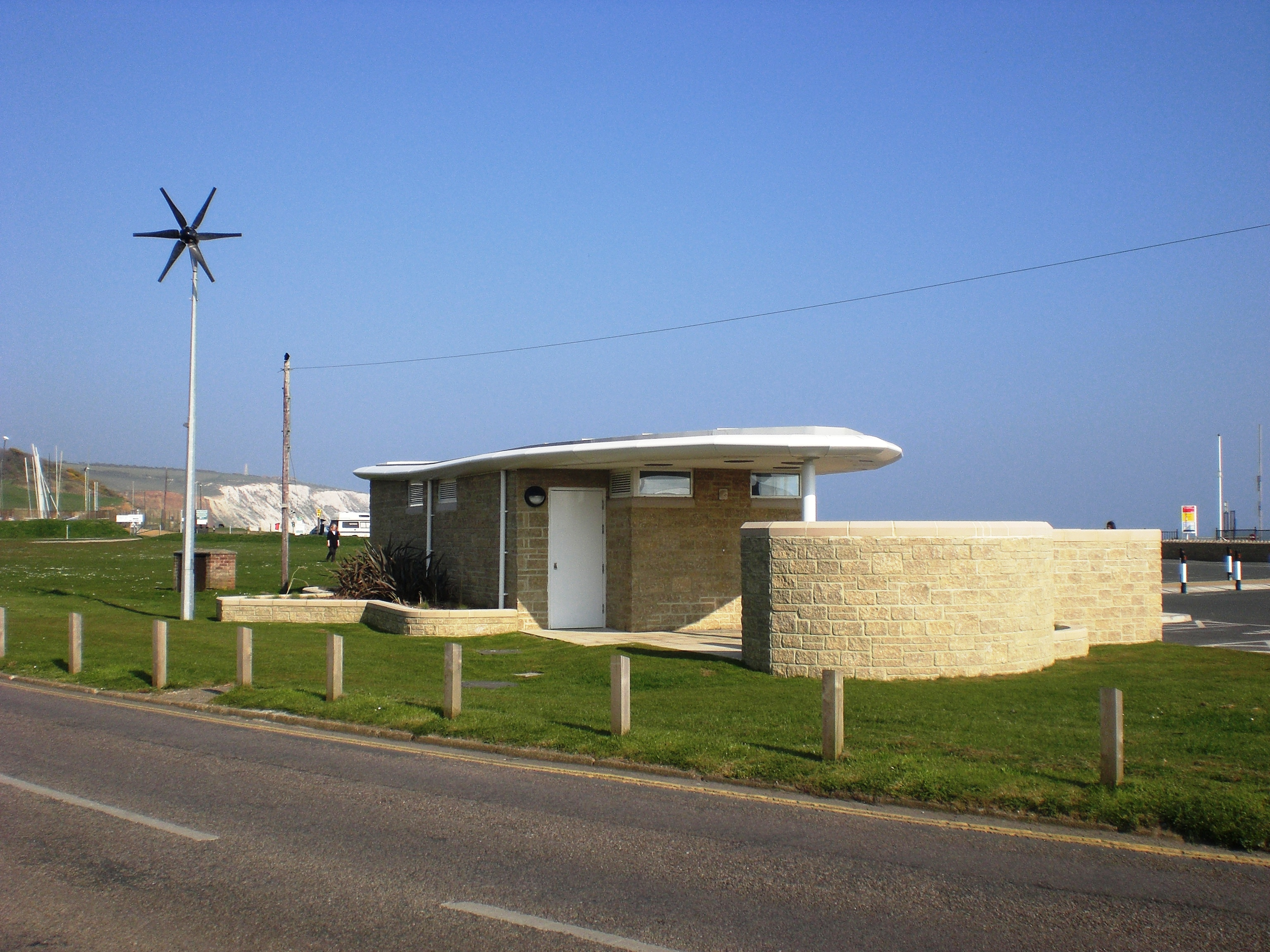 Eco toilets built in Yaverland on the Isle of Wight.